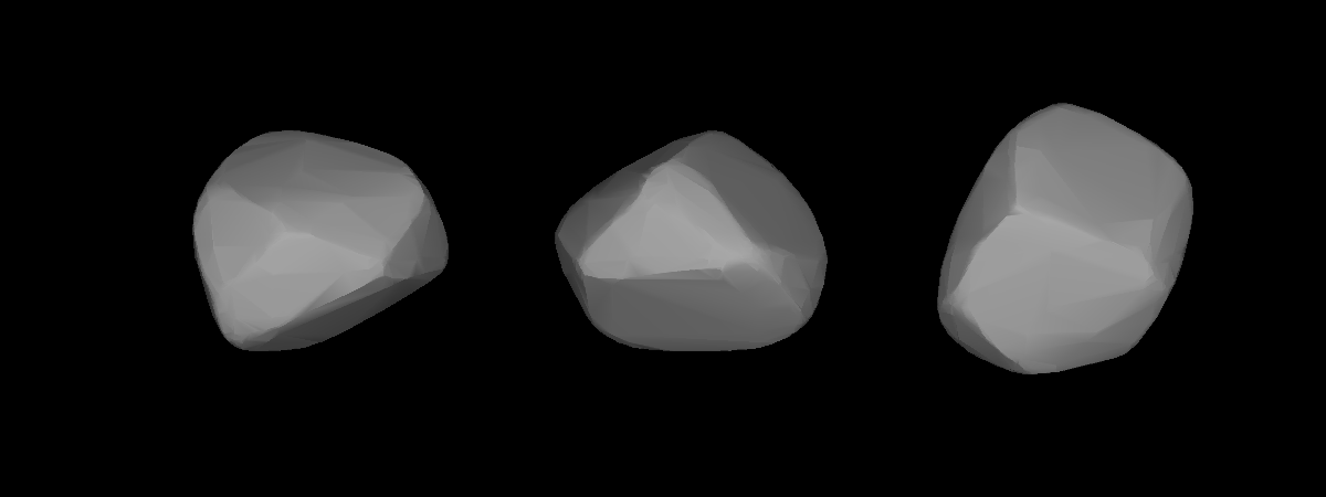 A three-dimensional model of 628 Christine that was computed using light curve inversion techniques.